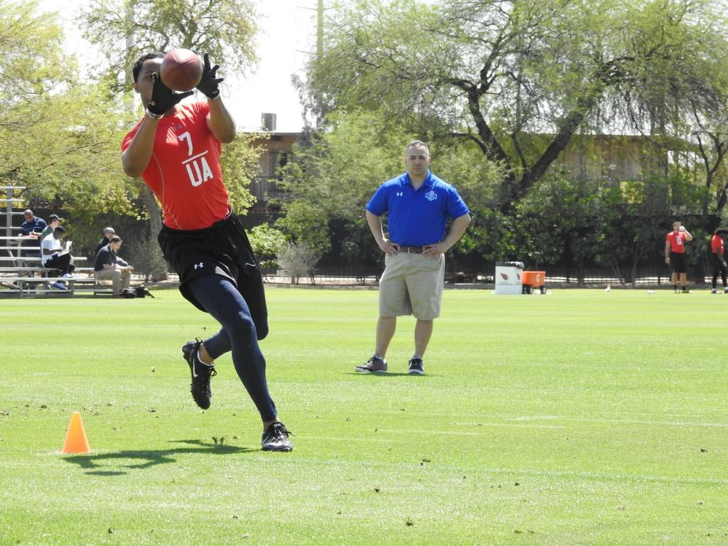 Combine